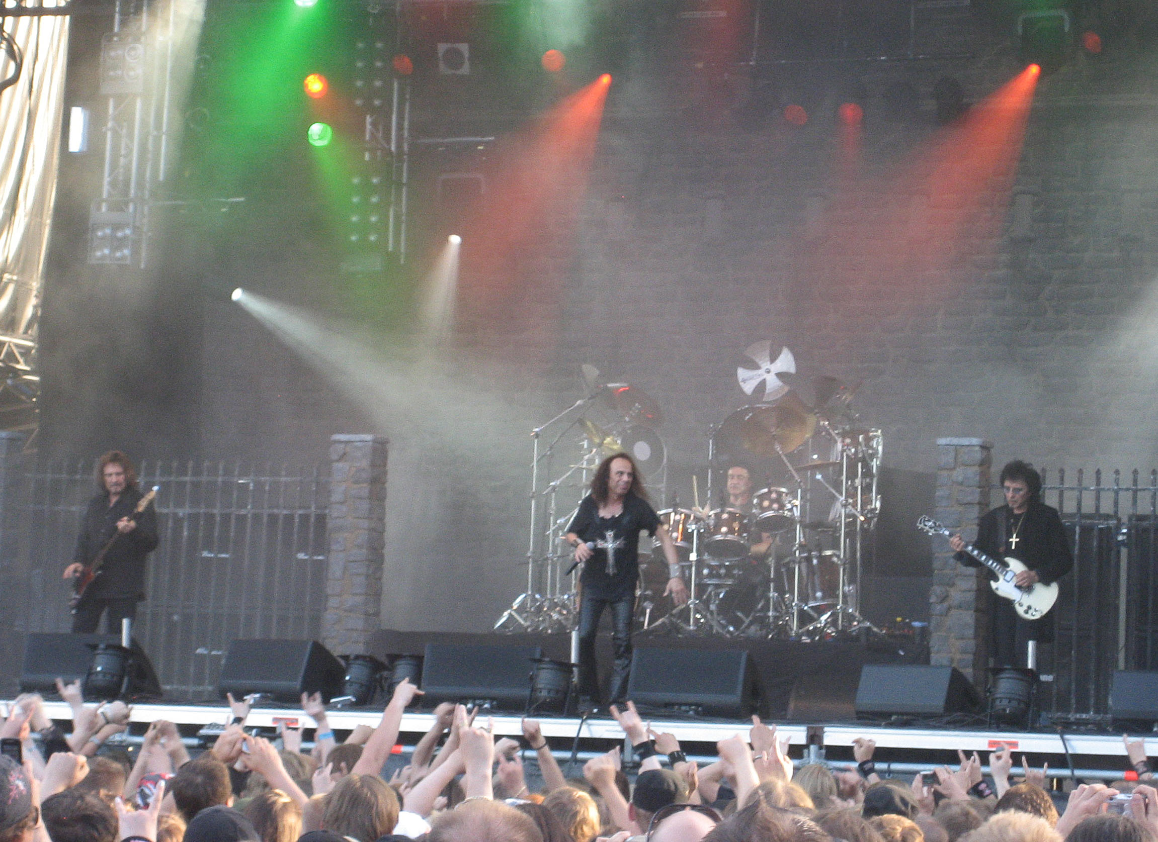 Heaven and Hell (band) live